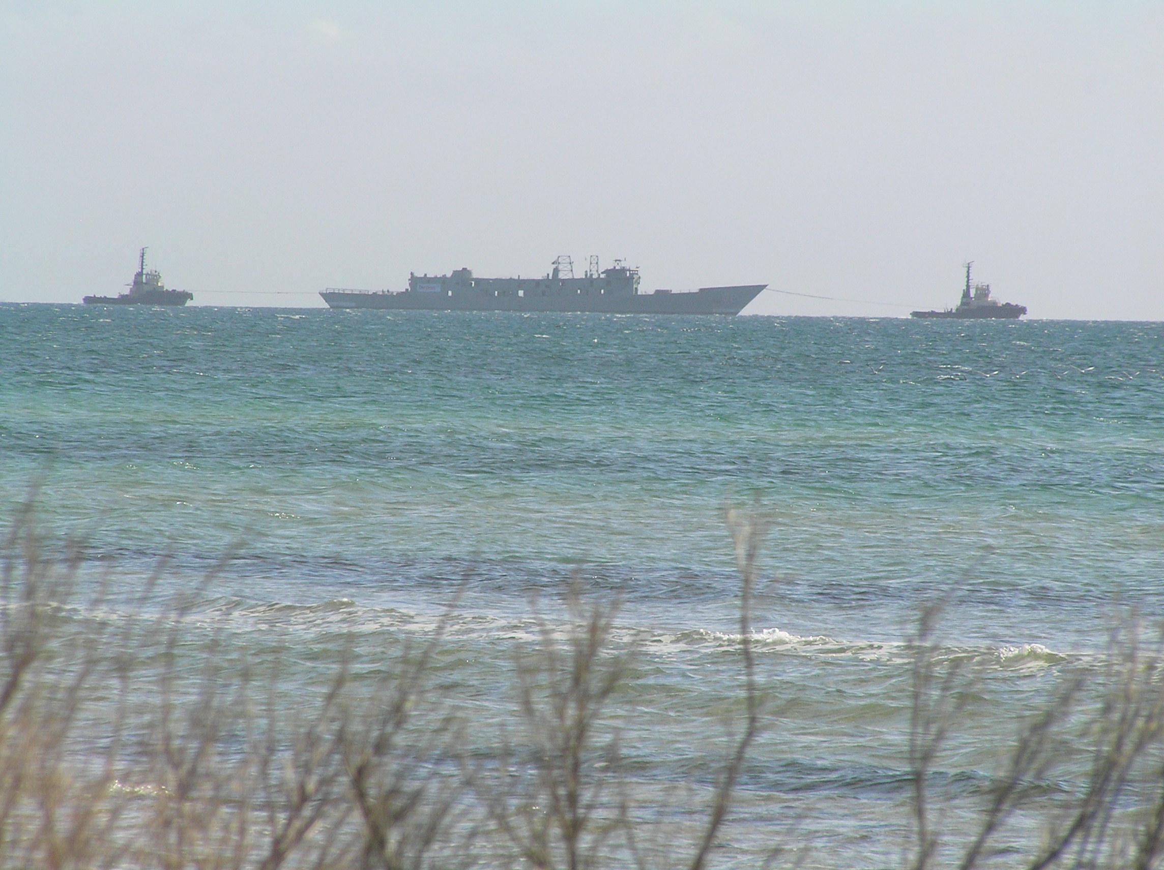 HMAS Canberra being towed from Port Phillip Bay before being sunk as a dive site